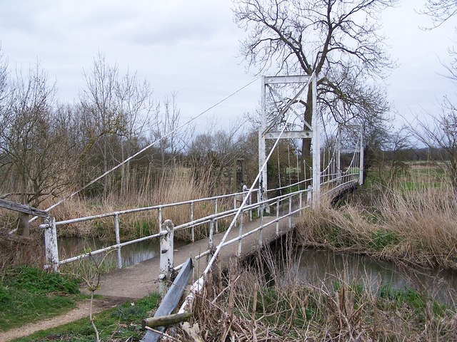 Suspension bridge over the River Avon A bridge with a very conspicuous wobble when walked on!